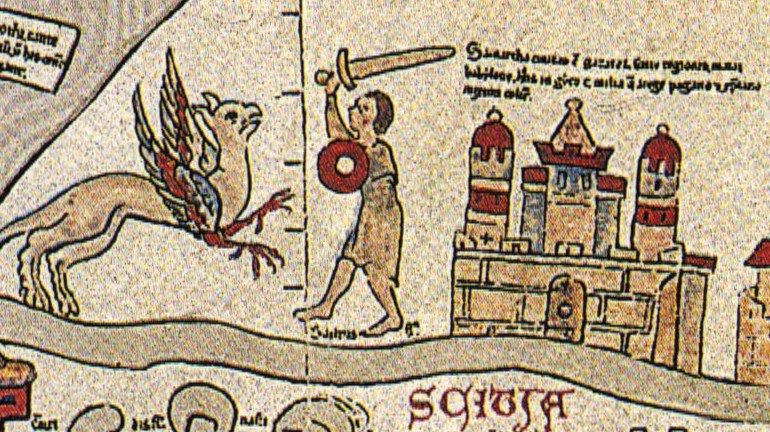 Ebstorfer World Map fragment. Samarcha (Samara) and griffin battles between griffons and Arimaspi (place of Kazan)